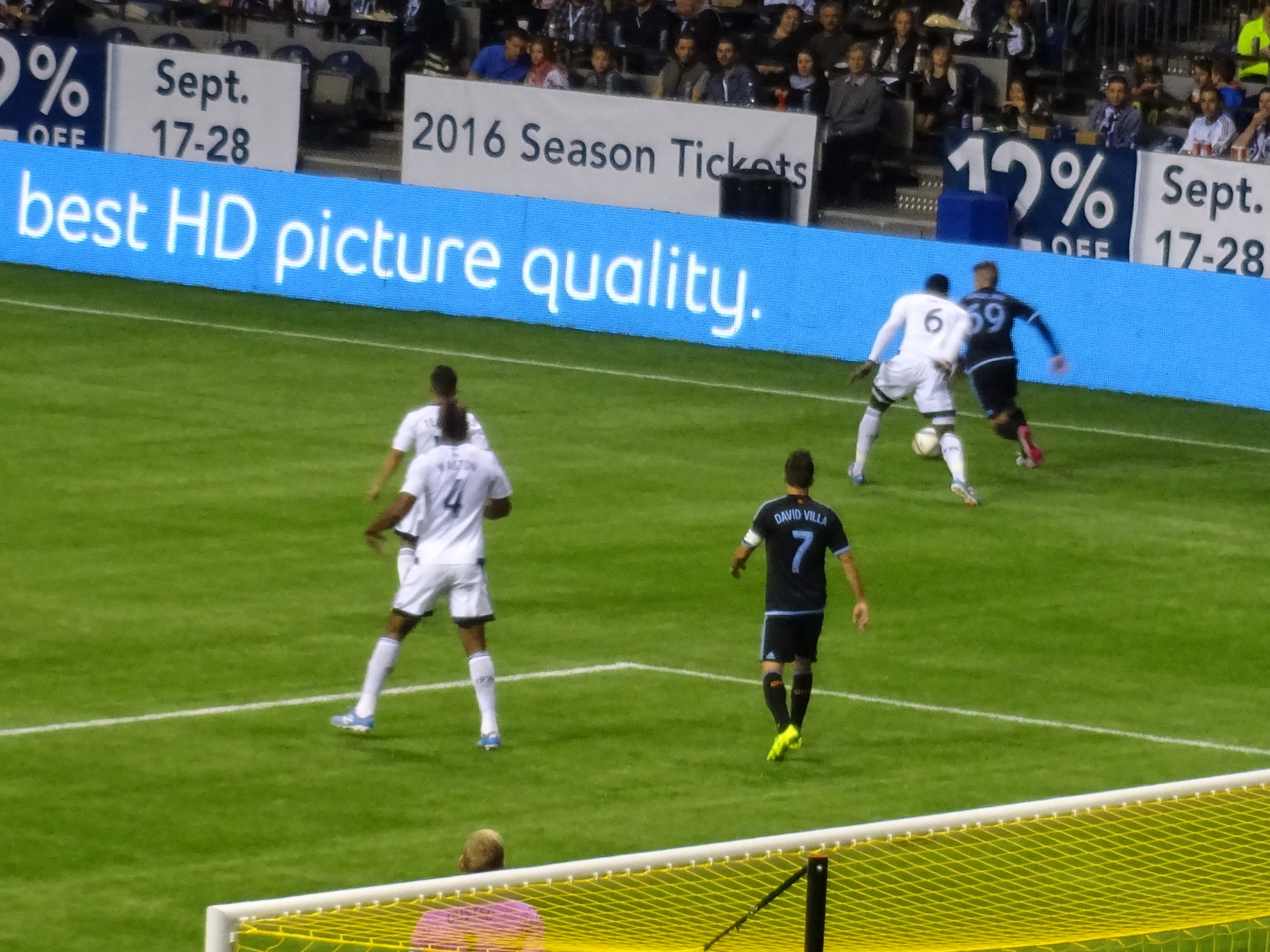 Jordan Smith from Vancouver Whitecaps against Angeliño from New York City